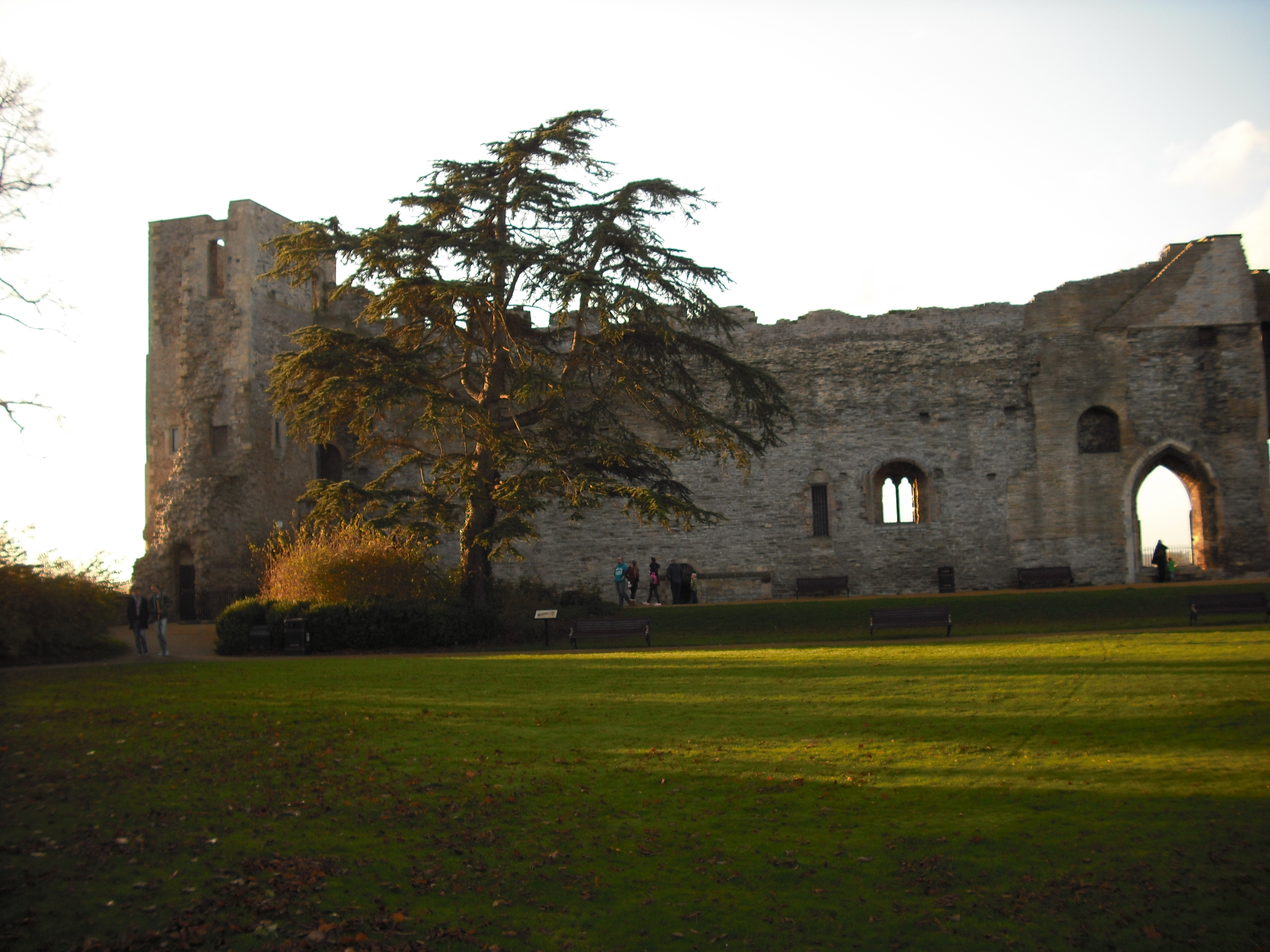 Newark Castle, interior